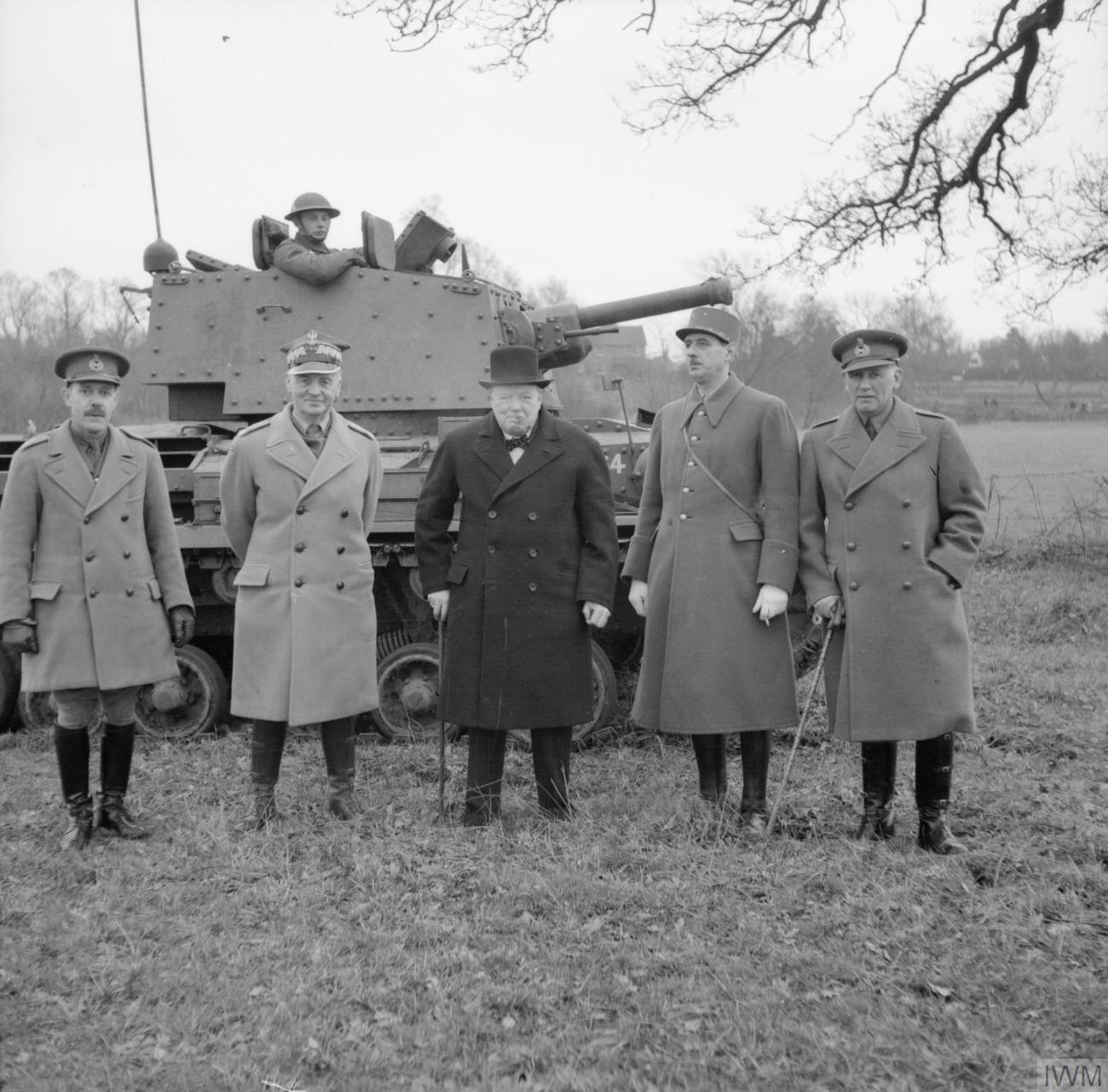 The Allied Armies in Britain, 1940-1945 The Prime Minister witnessed a tank demonstration in which he was shown the capabilities of various armoured fighting vehicles over rough country near Frensham, Surrey. With him were General Władysław Sikorski, the Prime Minister of the Polish Government-in-Exile and the C-in-C of the Polish Armed Forces, and General Charles de Gaulle, the C-in-C of the Free French Forces. The 2nd Armoured Brigade; 11th Royal Horse Artillery; 76th Anti-Tank Regiment, Royal Artillery; 10th Hussars; 9th Lancers; Queen's Bays, Royal Horse Artillery; 1st Battalion, Rifle Brigade took part in the demonstration.